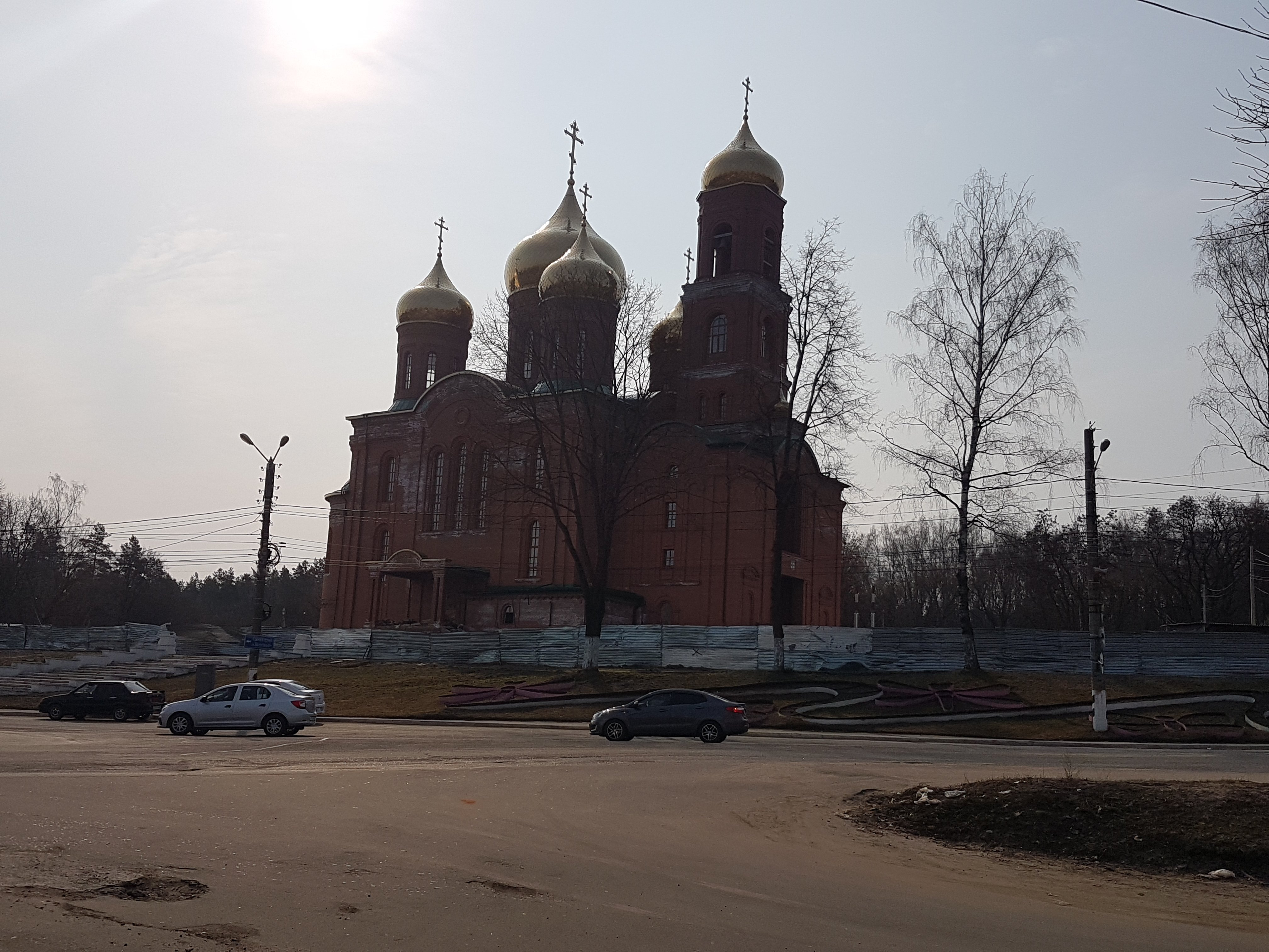 Temple in Klintsy